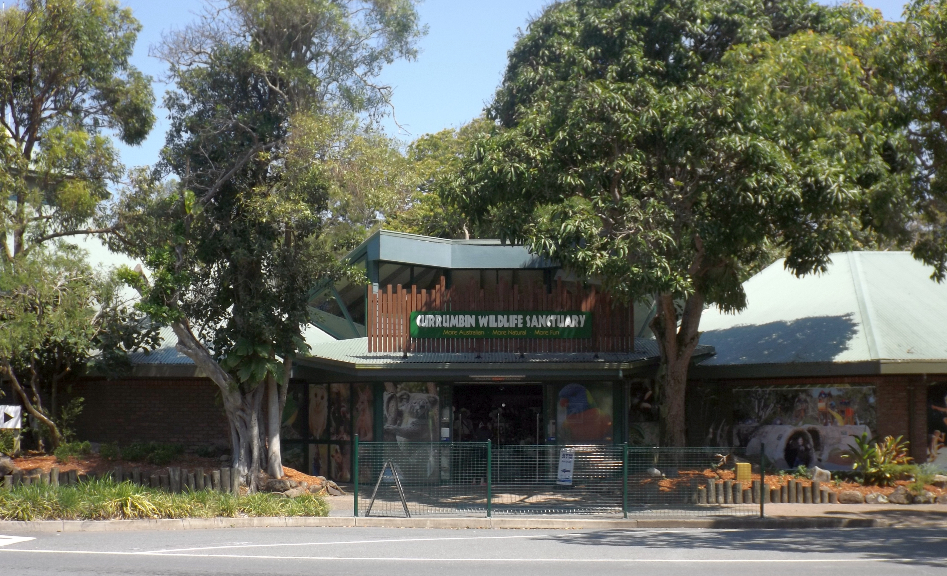 Photo of the entrance to the Currumbin Wildlife Sanctuary in Tomewin Street, Currumbin, Gold Coast City, Queensland, Australia.